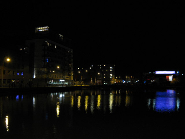 University of Lincoln By Night, Brayford Pool Scene from north side of Brayford Pool, looking towards University of Lincoln and buildings on Brayford Wharf East. Railway level crossing can be seen straight ahead, whilst the large light reflected on water (on right) is atop the University bar and performing arts building